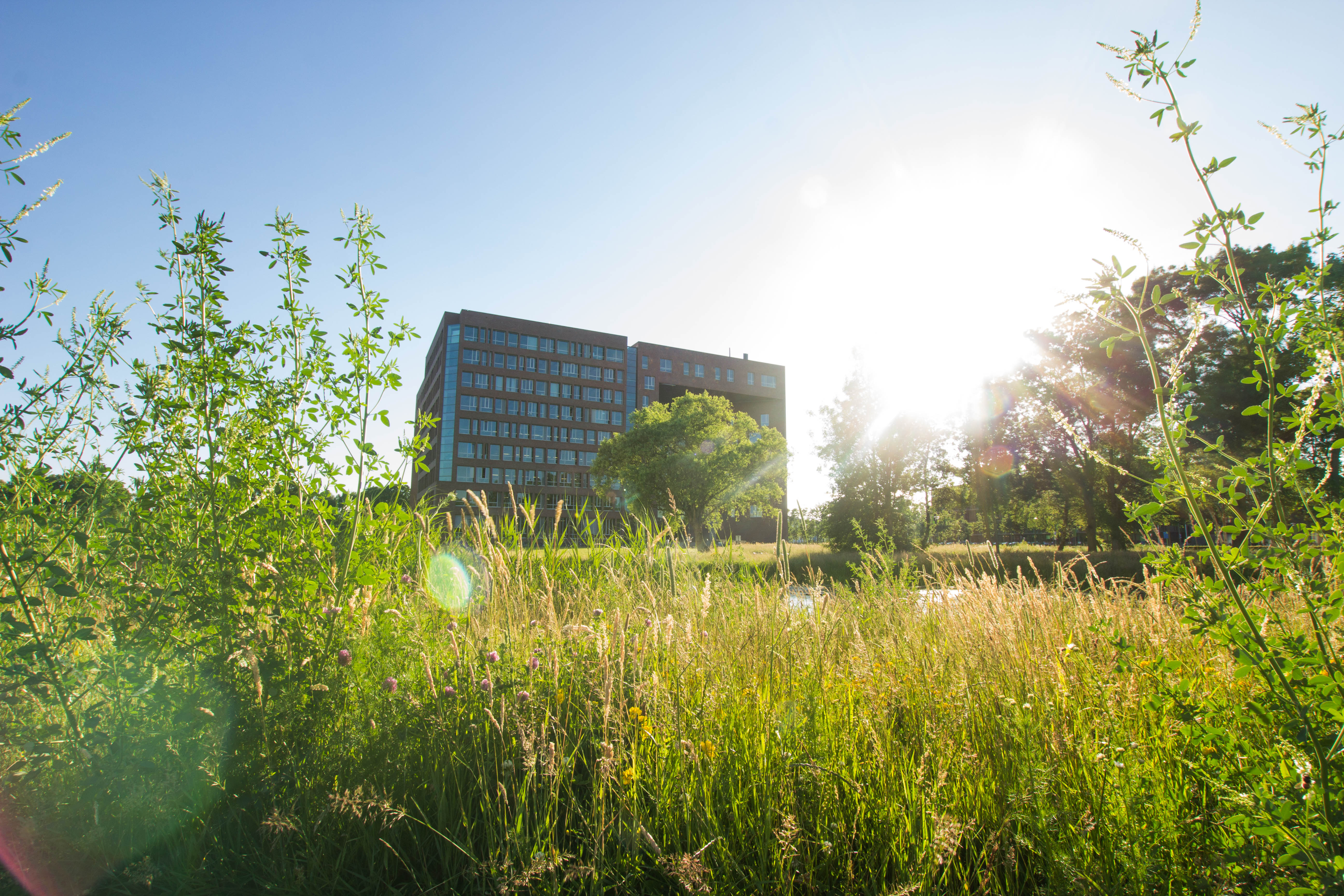 Summer on Wageningen Campus